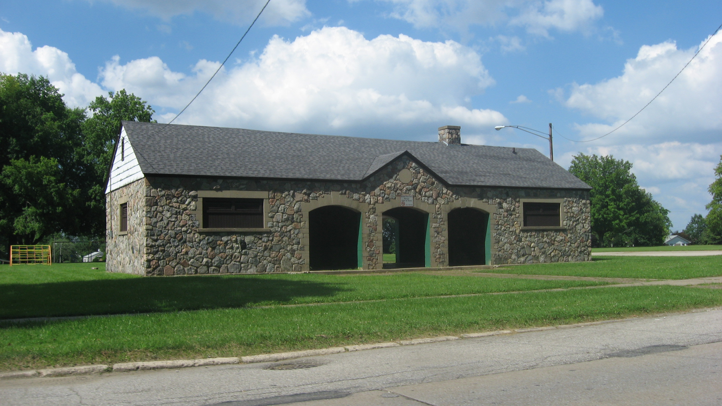 Southern front of the Walker Field Shelterhouse, located at 1305 Ewing Avenue in South Bend, Indiana, United States. Built in 1938, it is listed on the National Register of Historic Places.